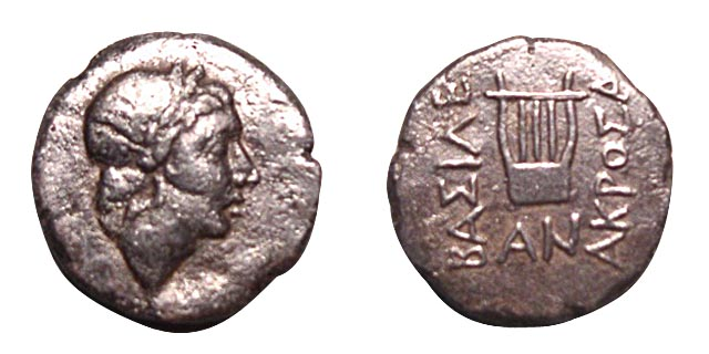 Olbia. Dichalk of king Akrossa. Copper. II BC. Head of Apollo right, cithara